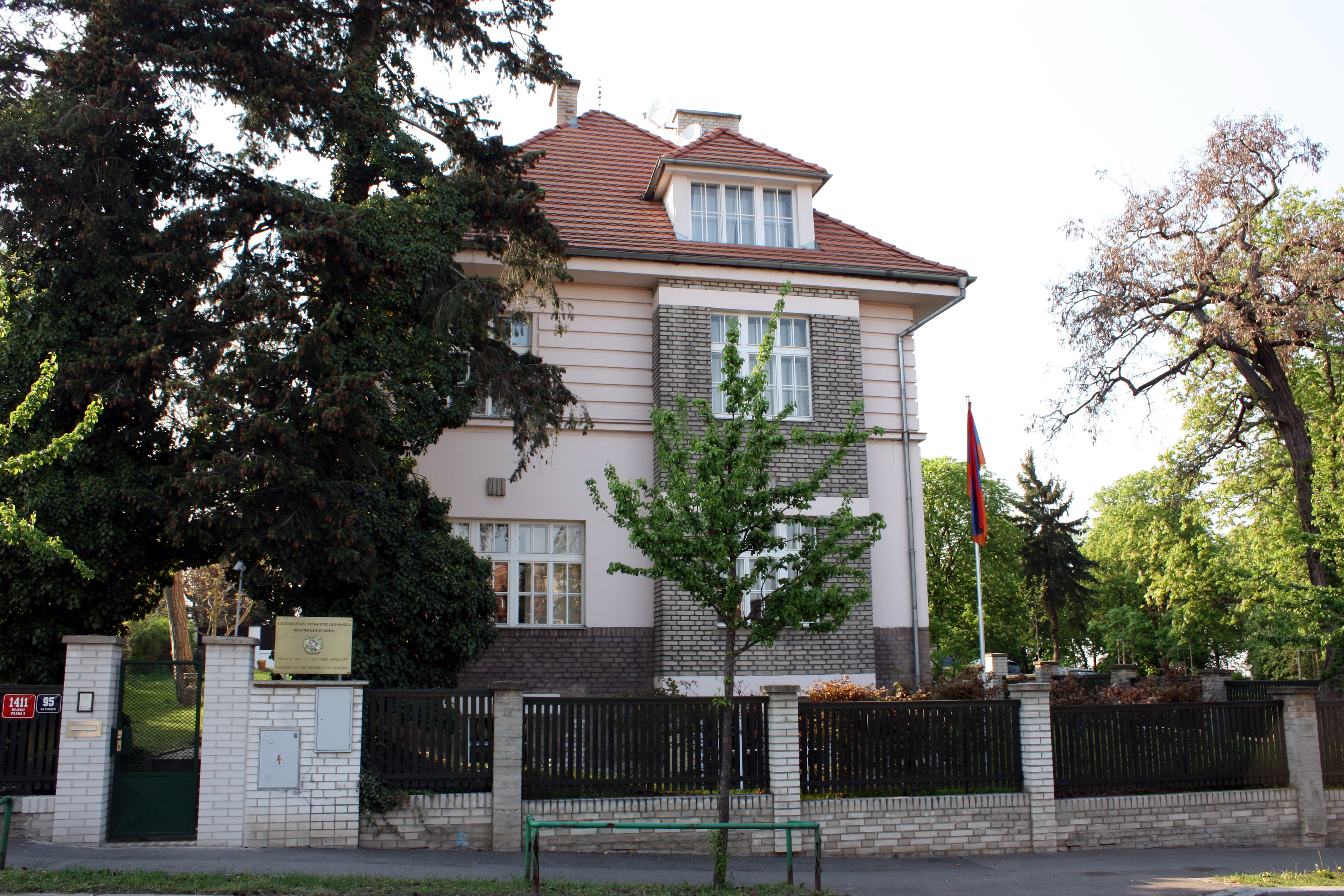 Armenian Embassy in Prague 6- Dejvice, Na pískách 1411/95